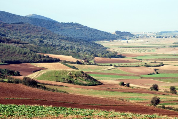 Iran / Golestan Province / Aliabad-e Katul City